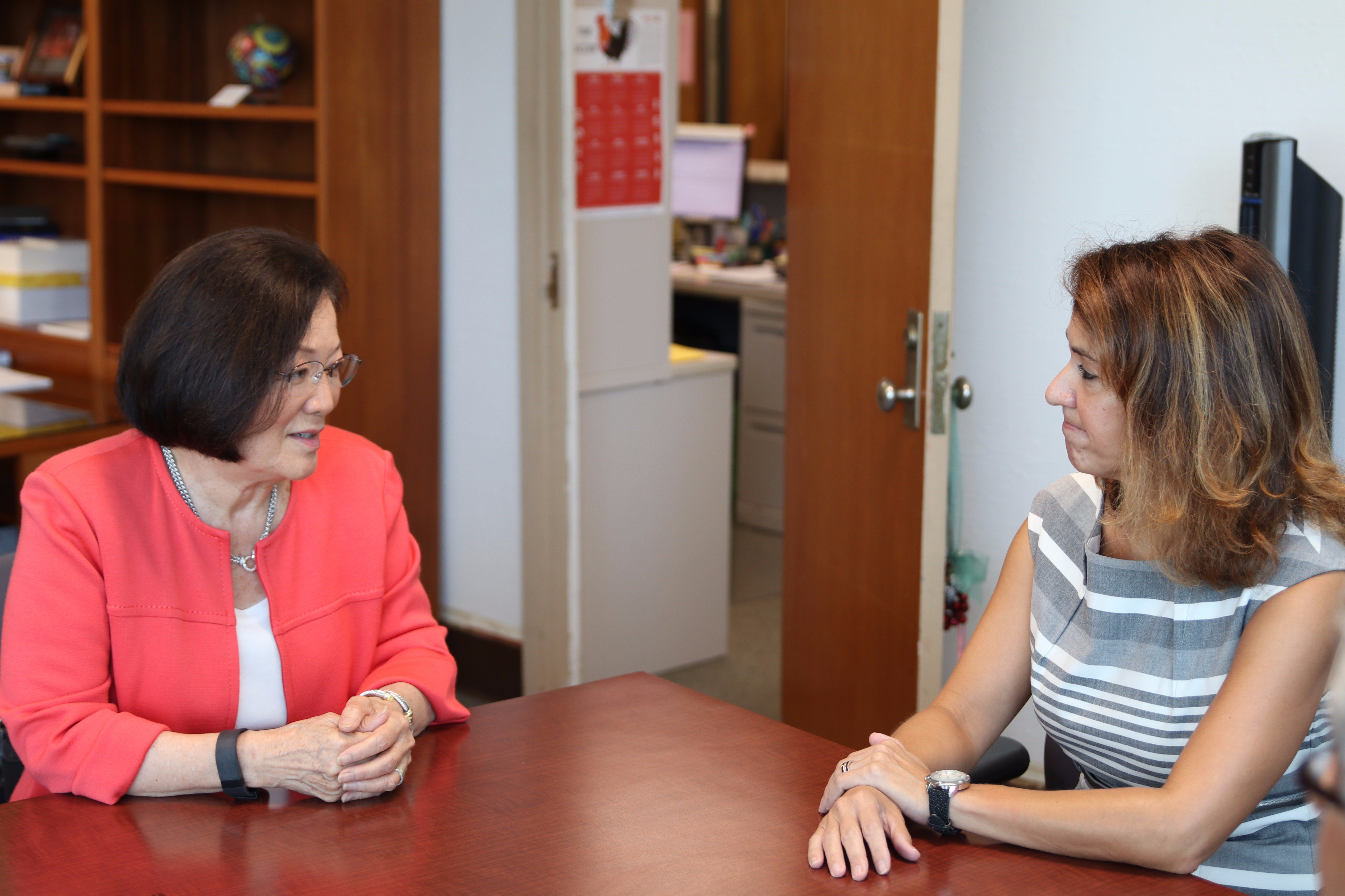 Mazie Hirono and Christina Kishimoto